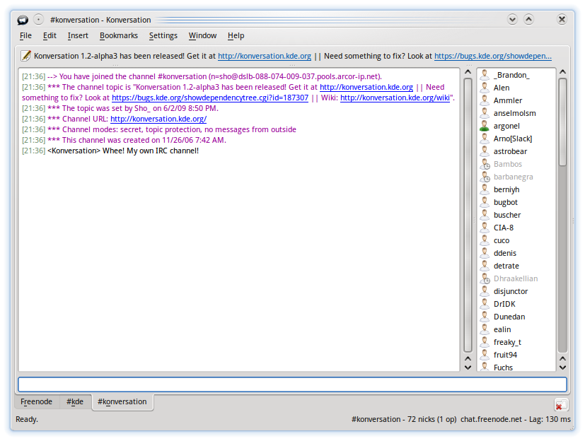 Screenshot of Konversation